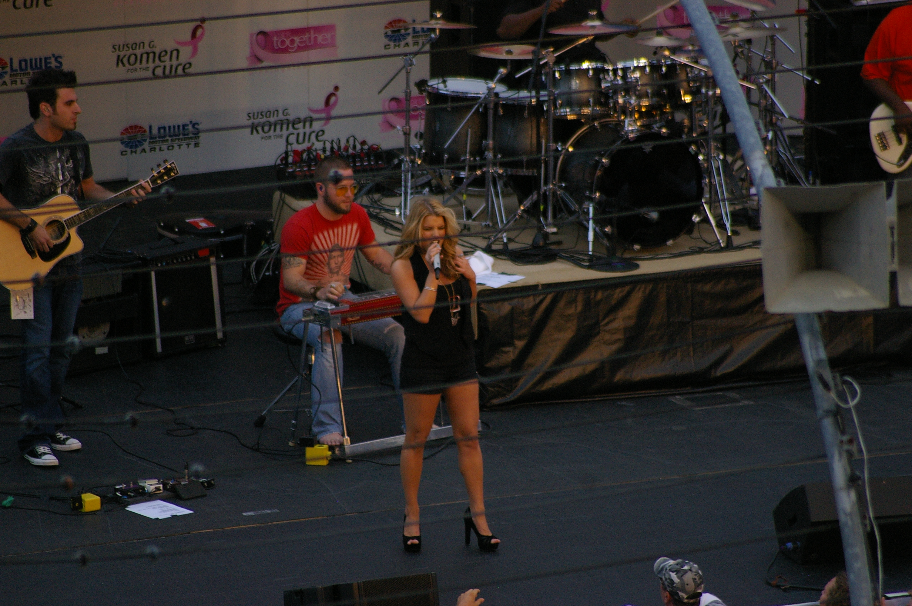 Jessica Simpson Pre-race show at Lowe's Motor Speedway 2008.